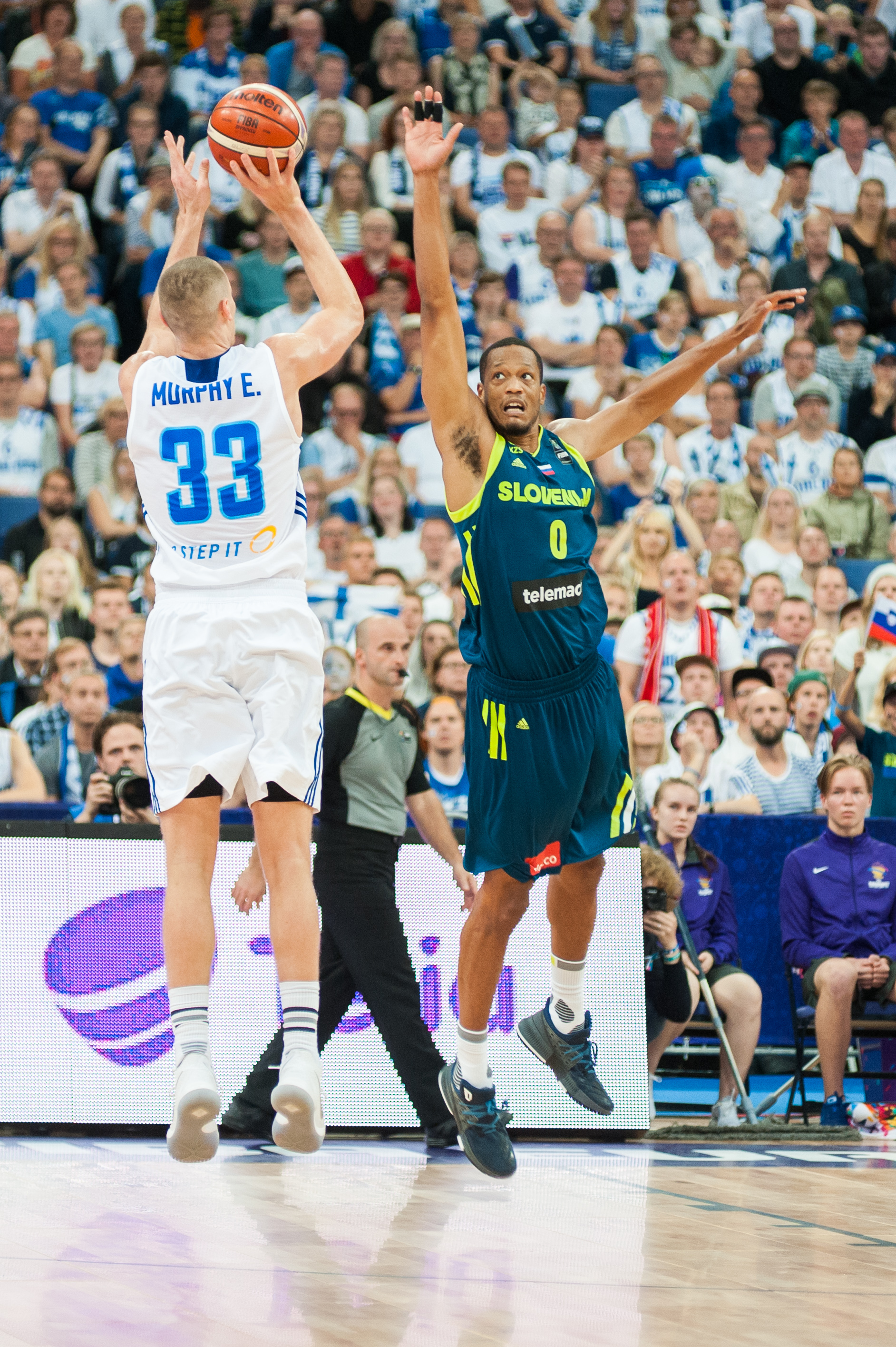 EuroBasket 2017 Group A game between Finland and Slovenia at Hartwall Arena in Helsinki, Finland.